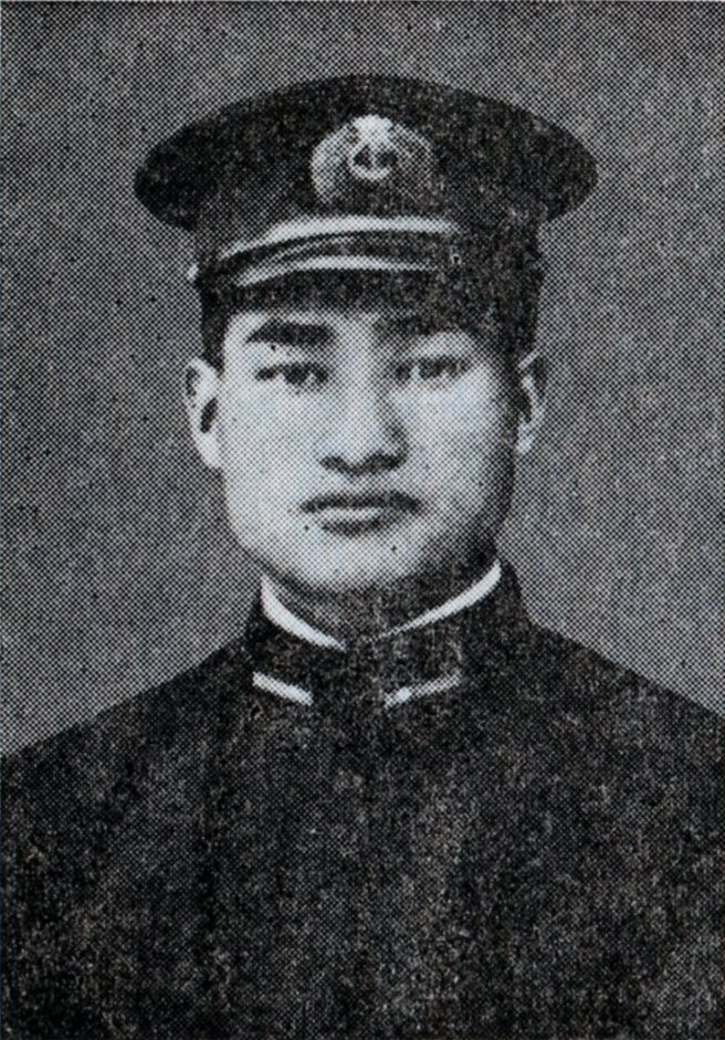 Fujii Hitoshi was an Imperial Japanese Navy Lieutenant Commander